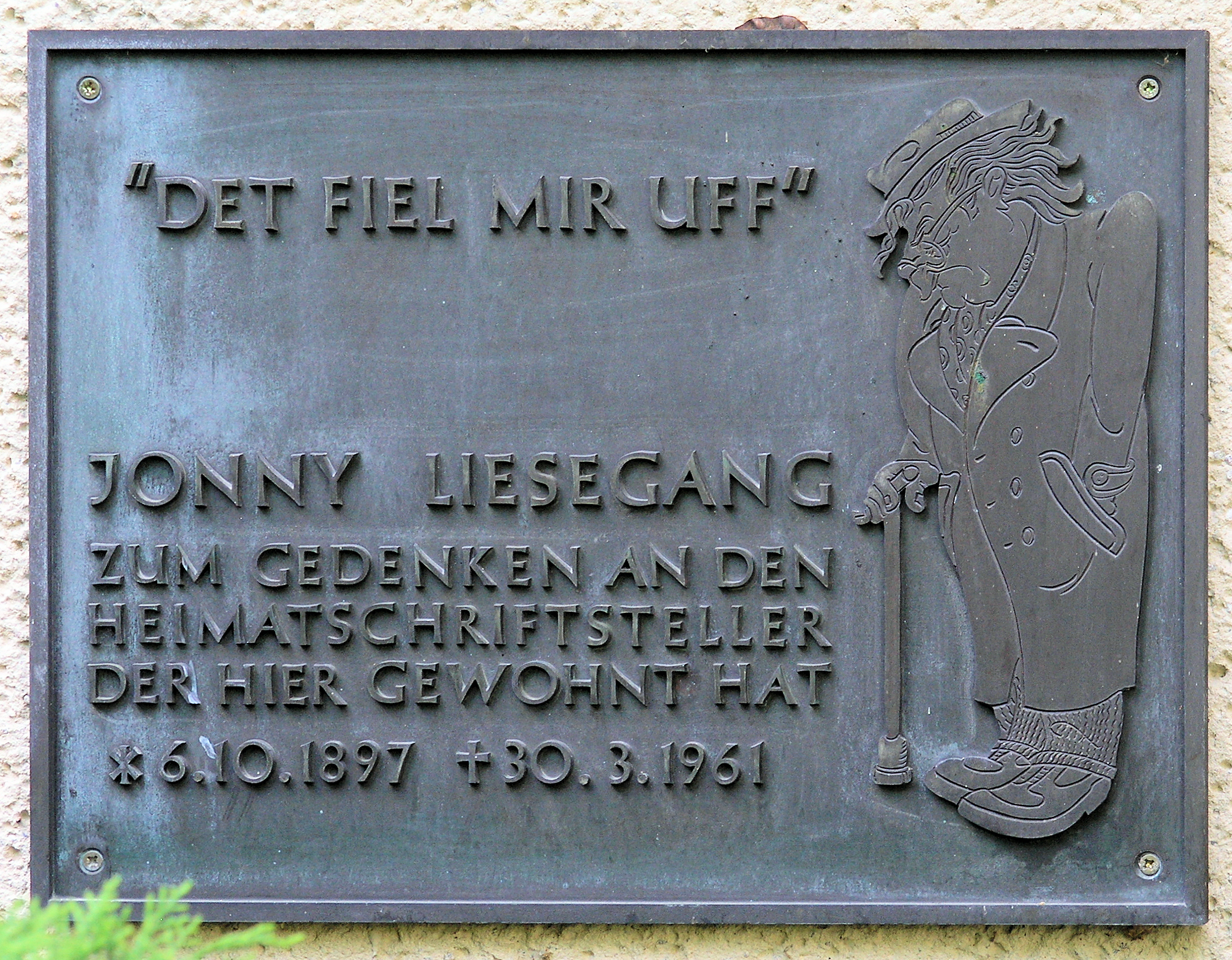 Memorial plaque, Jonny Liesegang, Afrikanische Straße 146c, Berlin-Wedding, Germany Koordinate:52°33′35″N 13°20′4″E / 52.55972°N 13.33444°E